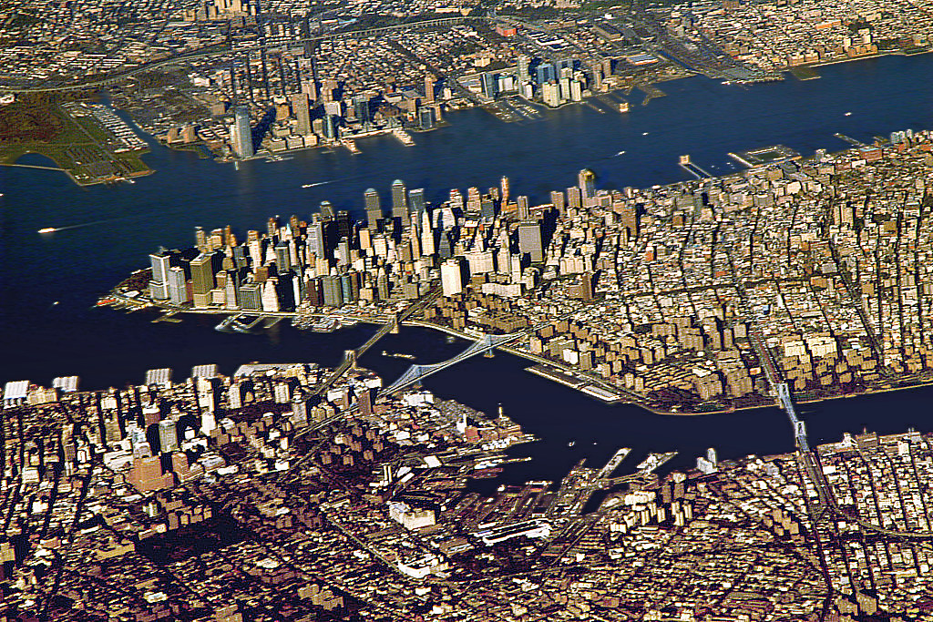 Downtown Manhattan and Brooklyn with New Jersey From Aeroplane